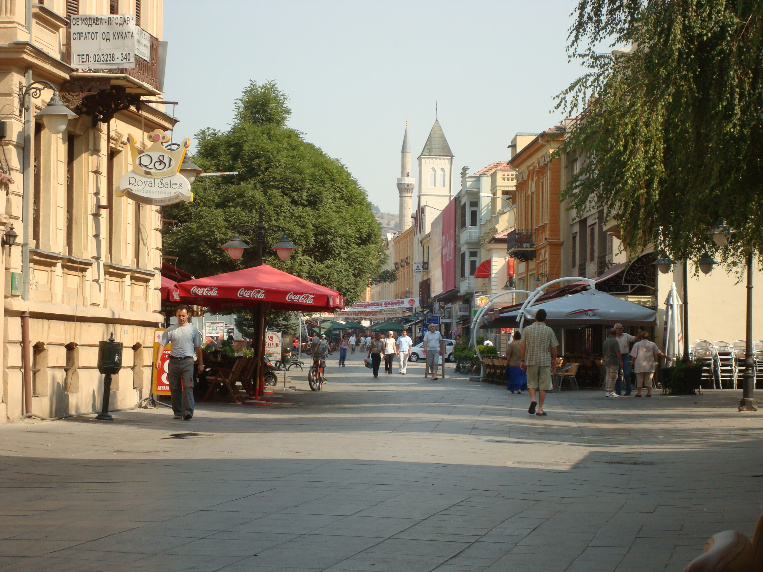 Promenade in Bitola, Macedonia.